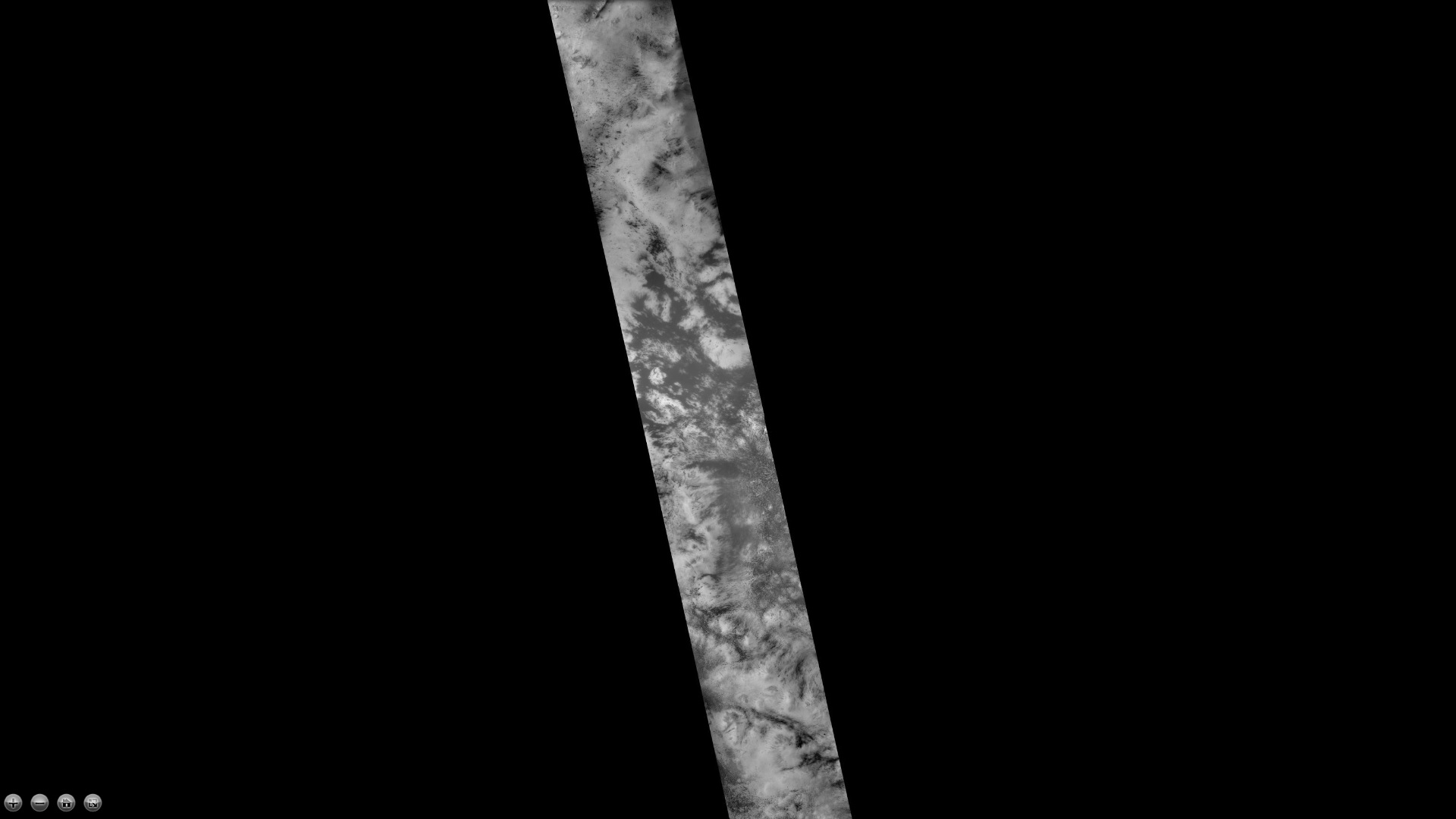 Western edge of main crater, as seen by CTX Dark areas are from winds blowing dust that is being blown out from pressurized carbon dioxide during the spring season.